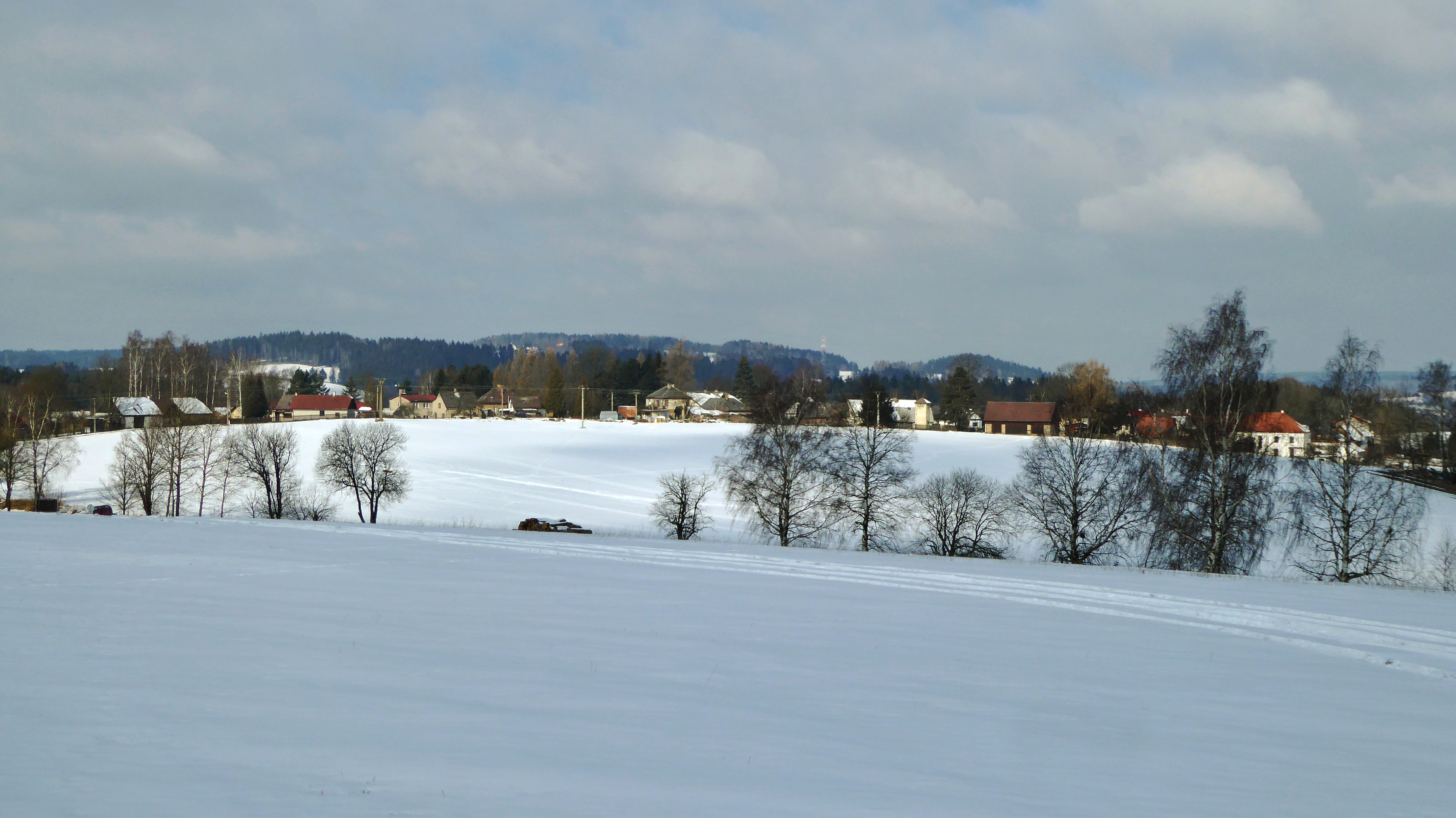 View from the top On the Merry Hill (578.5 m), winter landscape with the hamlet "Dřevíkov", trees under the slope near the road connecting the settlement sites "Dřevíkov" and "Veselý Kopec" (Merry Hill), on the horizon "Zuberský" hill (651 m, below is a lookout tower). The setlement locality of "Dřevíkov" lies in the top part of hill (no name) with an altitude of 571.5 m in the "Stružinecká" Highlands, about 2.5 km southeast of small town Trhová Kamenice and 6 km west of town Hlinsko. Village with folk buildings monuments (a wooden small bell tower, a timbered cottage, a former Jewish Lane and a Graveyard). In the cadastral territory there is also a small hamlet "Veselý Kopec" with a significant exposition of the museum in nature with name of the Set of folk buildings "Vysočina". "Dřevíkovská" village green is information point No. 10 on the Homeland trail the Region of Chrudimka River. "Dřevíkov" is settlement locality of the type of small hamlet and the name of the cadastral area with an area of 226.58 ha with a range of approximately 534 to 579 meters above sea level in the landscape area of the Iron Mountains, within the administrative is part municipality of Vysočina in the district of Chrudim belonging to the Pardubice Region in the territory of the Czech Republic. Photo location: Czechia, Pardubice Region, municipality Vysočina, hamlet of "Dřevíkov", "Stružinecká" knoll hill.